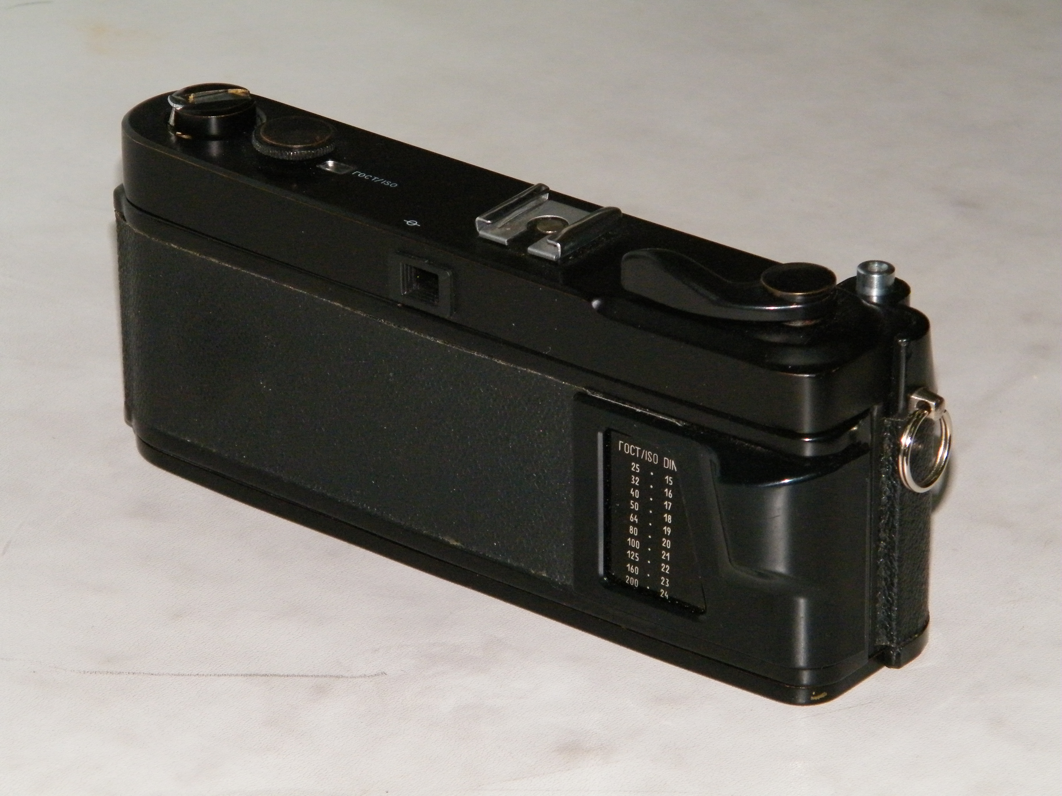 FED-STEREO from Evgeniy Okalov collection